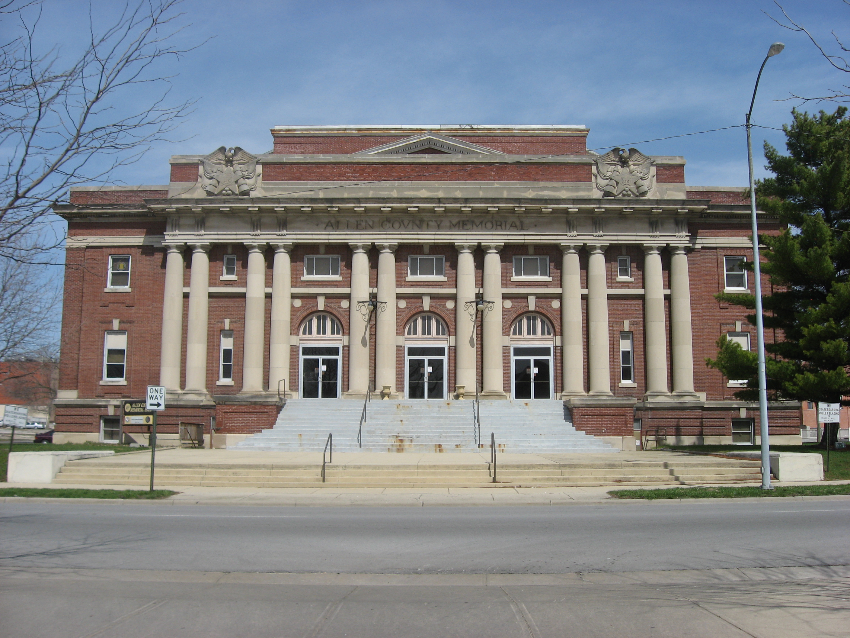 Southern side of the Lima Memorial Hall, located on the northeastern corner of the intersection of Elm and Elizabeth Streets in Lima, Ohio, United States. Built in 1908, it is listed on the National Register of Historic Places.